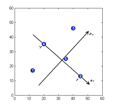 The example for the article Geometric Hashing, showing the points (of image) and their translation to a new coordinate system defined by the basis of two points (2, 4).